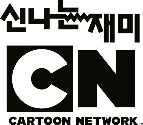 Cartoon Network Korea logo.